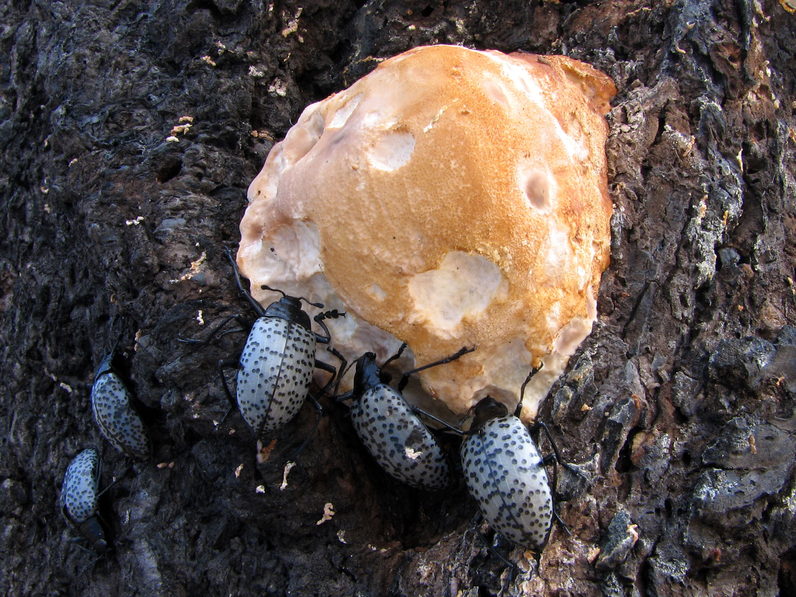 Cypherotylus californicus. Mount Lemmon, Santa Catalina Mountains, Pima County, Arizona, USA. 29 September 2007.